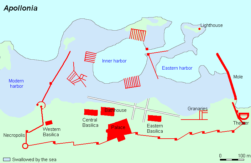 Map of ancient Apollonia, Libya. Apollonia was founded in the 7th century BC by Greek colonists and served as port of nearby Cyrene. The map shows which parts of the ancient city were submerged by the 365 AD Crete earthquake.